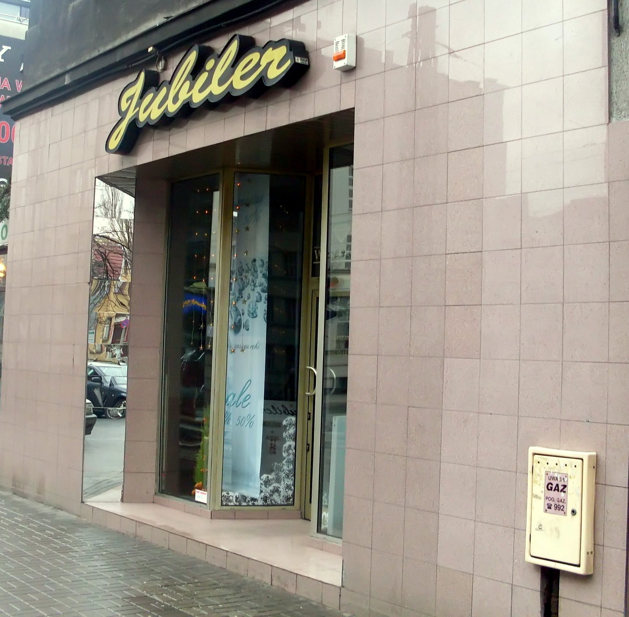 Jeweler′s shop at ulica 10 Lutego, Gdynia.